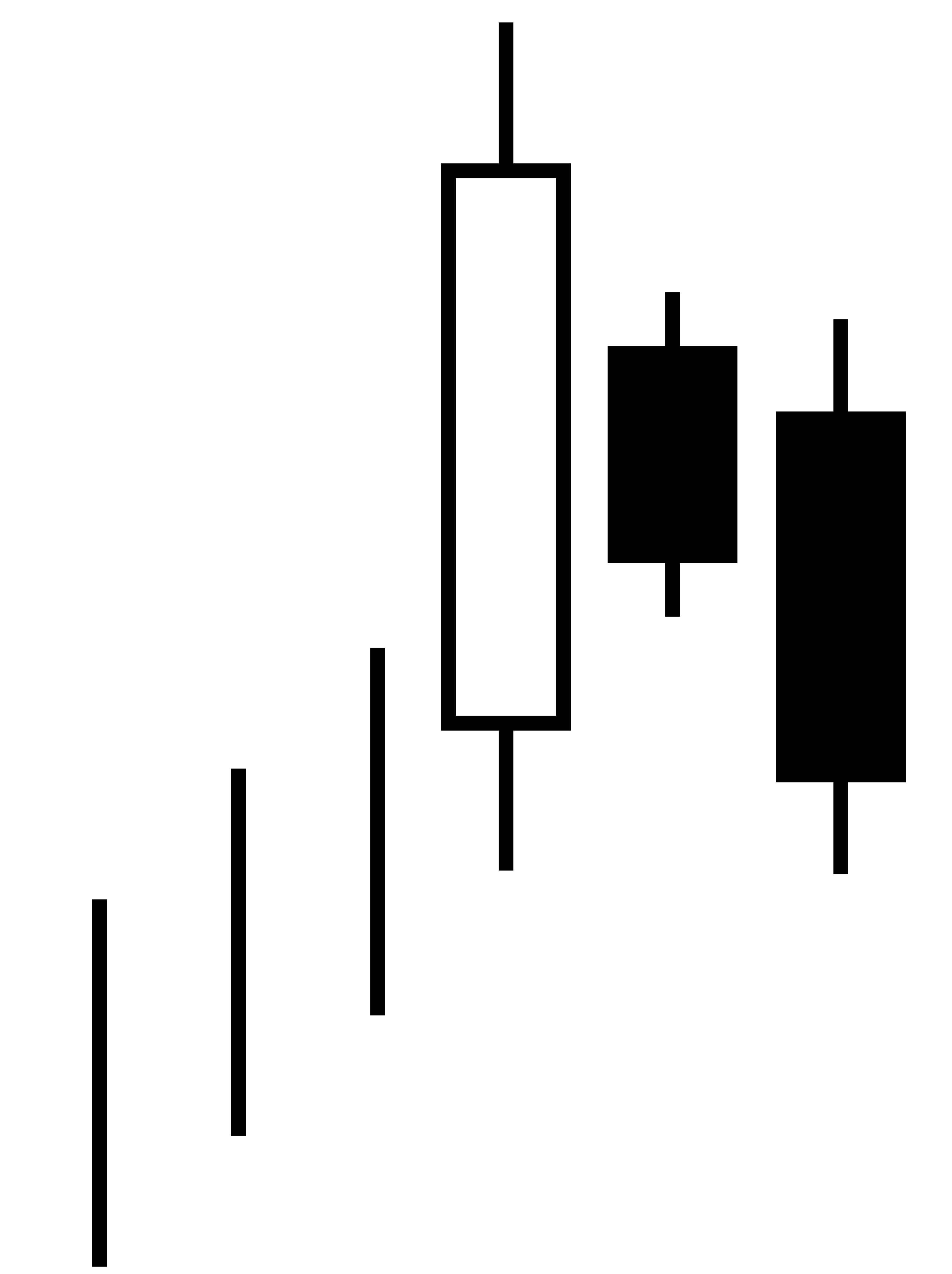 Bearish Three inside down